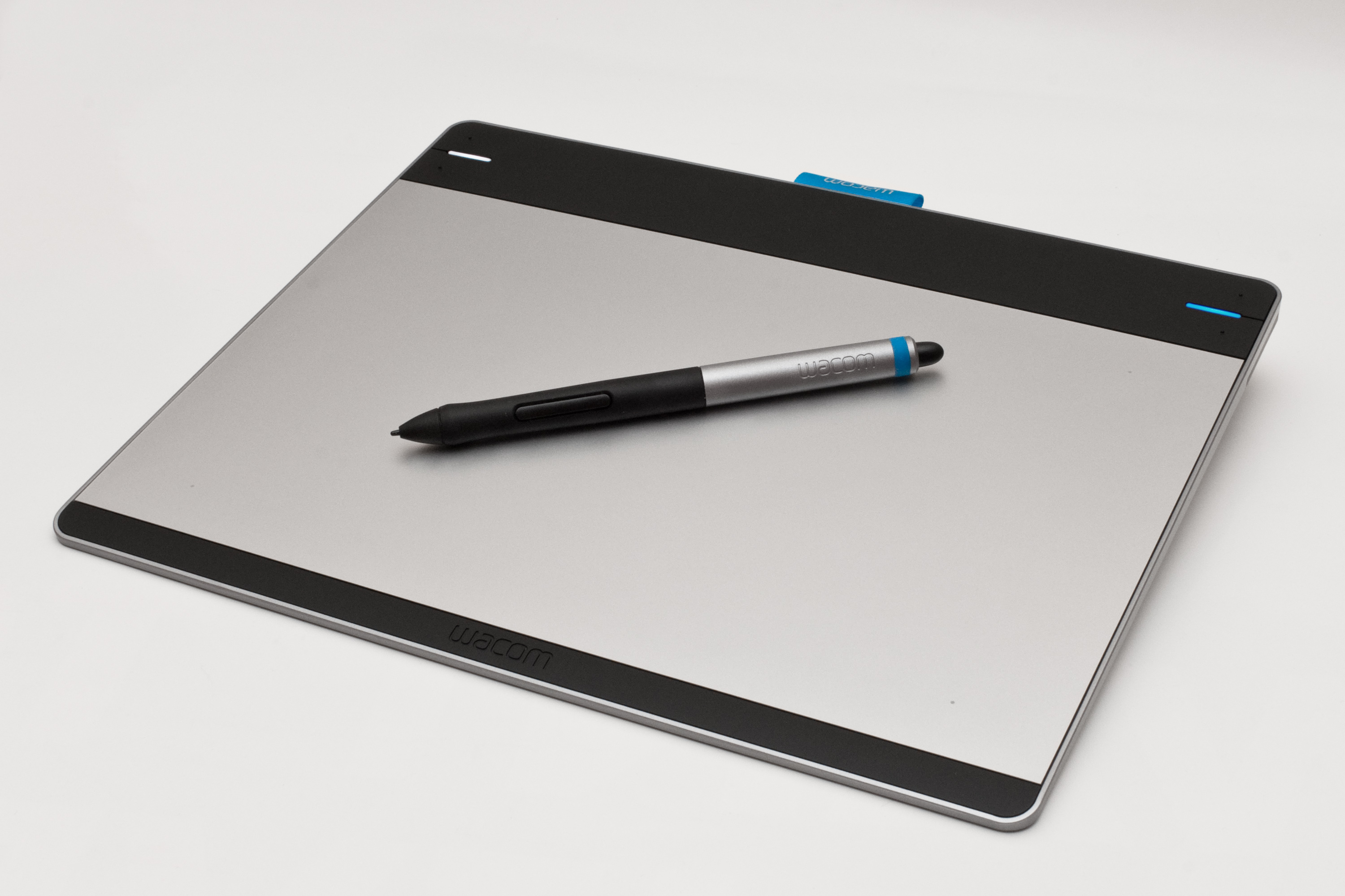 Wacom Intuos pen & touch M graphics tablet type CTL-480.